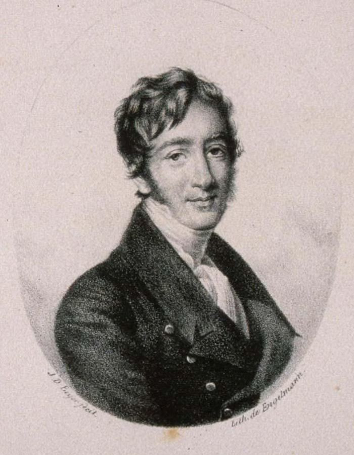 Portrait of Godefroy Engelmann (1788-1839)